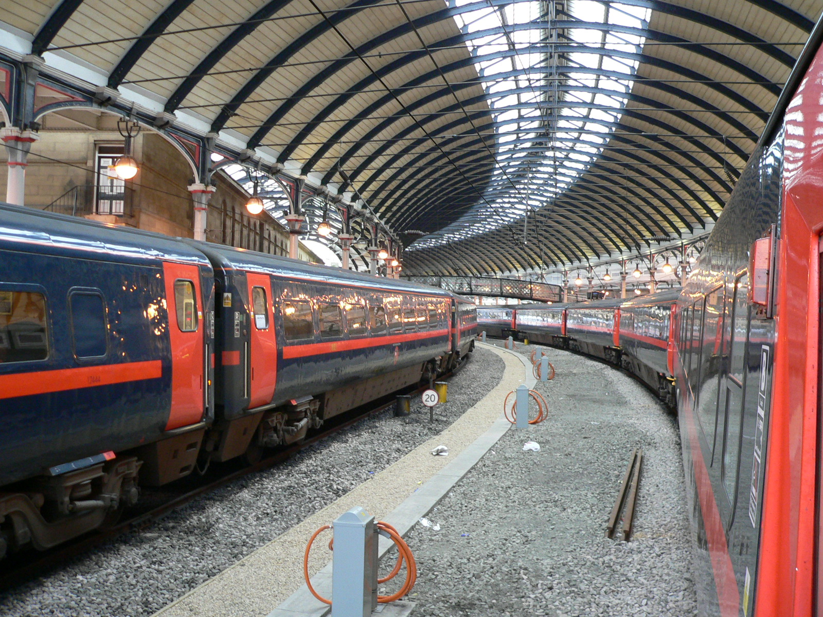 GNER liveried coaches at Newcastle Central station. On the left are Mk4 coaches forming part of an Intercity 225 formation. On the right are Mk3 coaches in an Intercity 125 train, from which this photo was taken. Also well illustrated in this picture is the impressive roof over the two main through routes at the station.